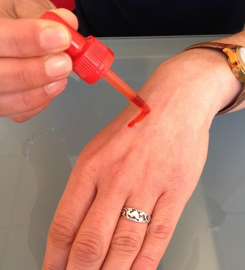 One hand applies with a dropper a 2% solution of merbromin (Mercromina) onto another hand.